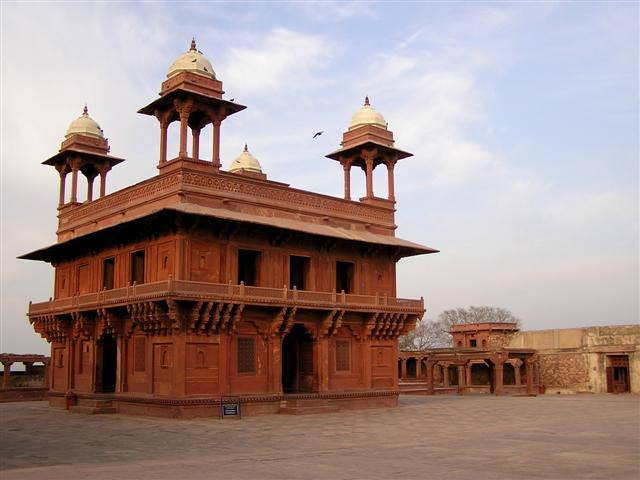 The private audience room at Fathepur Sikri, near Agra, India